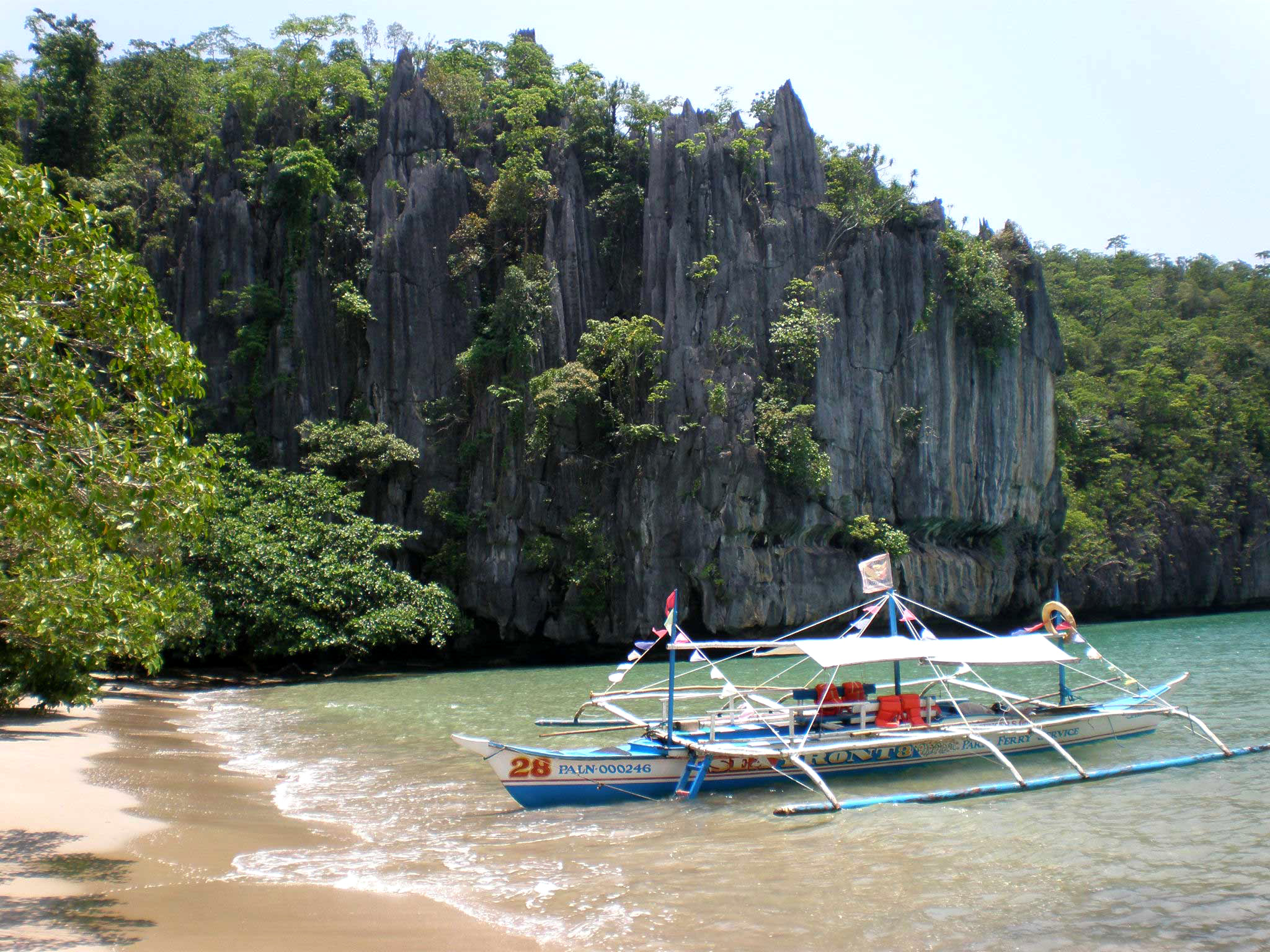 Rock formations at the docking area going to the Underground River.